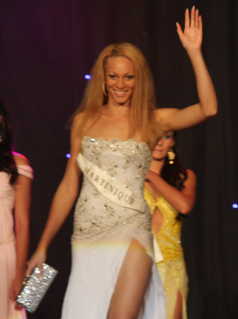 Miss Martinique 2008 Elodie Delor during Miss World 08